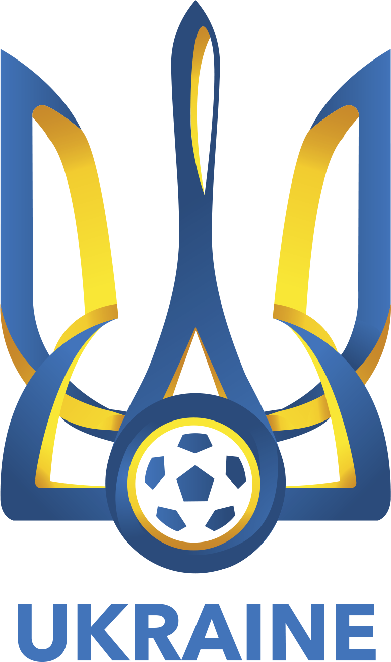 Logo of Football Federation of Ukraine